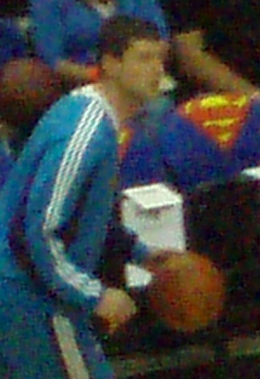 Ryan Bowen of the New Orleans Hornets players warms up before the Christmas 2008 game at Orlando Magic (at Amway Arena)